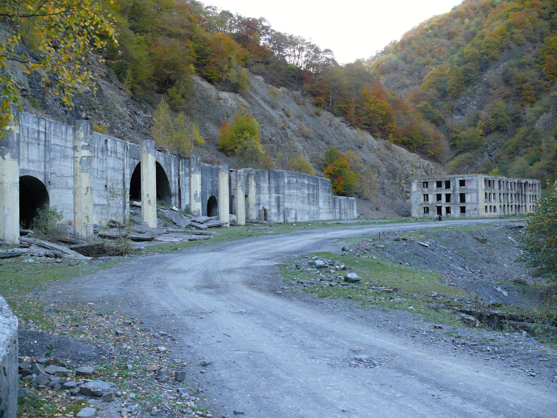 Abandoned railway tunnel construction near Korsha in Khevsuretis Aragvi valley.